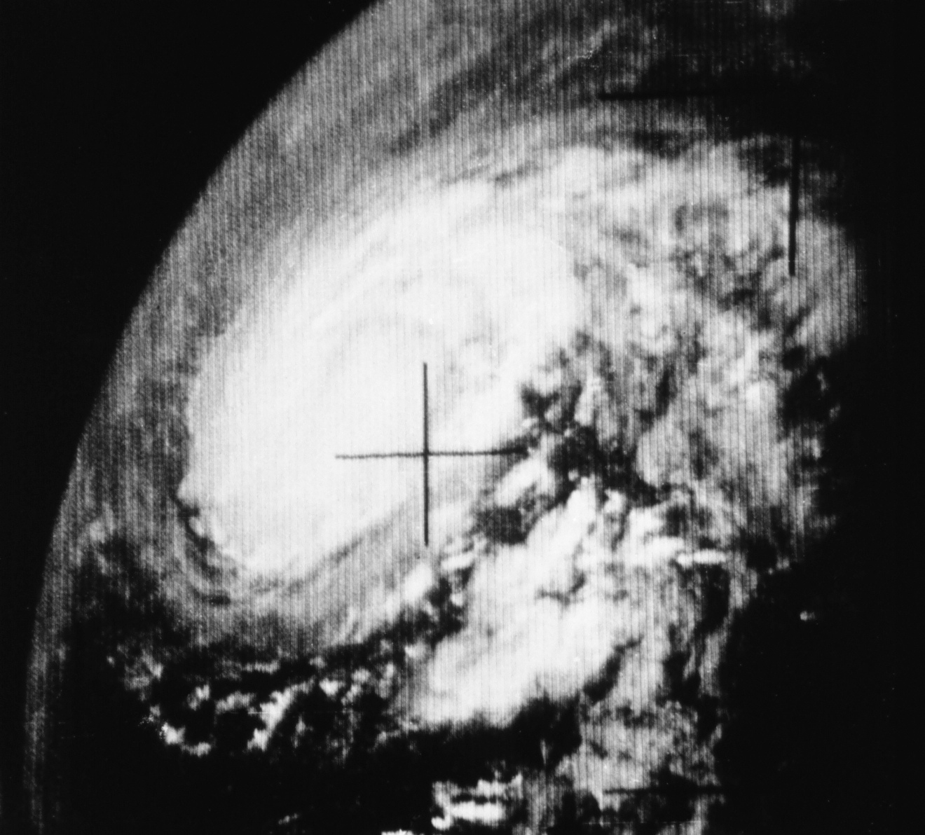 Hurricane Beulah as photographed from TIROS VII